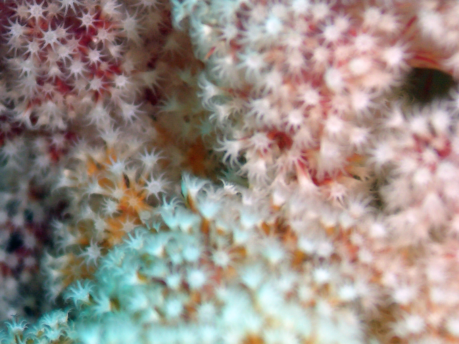 Soft Coral (Siphonogorgia godeffroyi) at Lembeh Strait, North Sulawesi